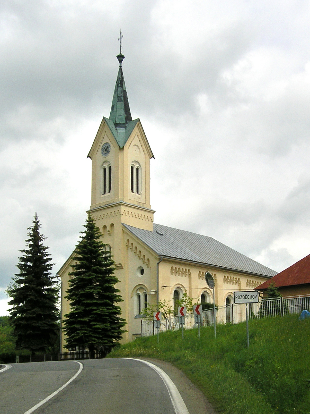 Church in Pozděchov, Czech Republic